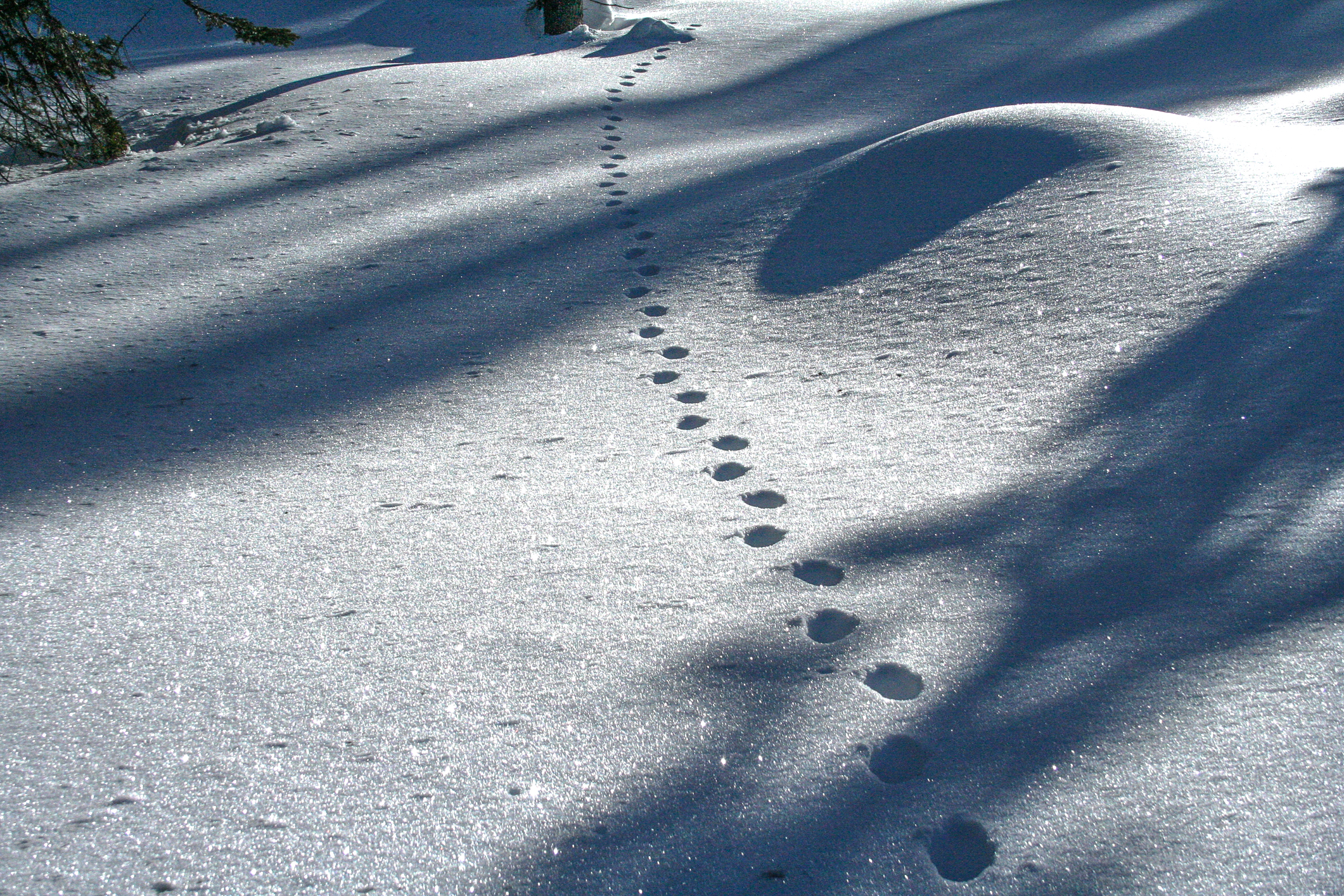 Sun Peaks Nordic scenes...Mountain Lion (cougar) tracks...